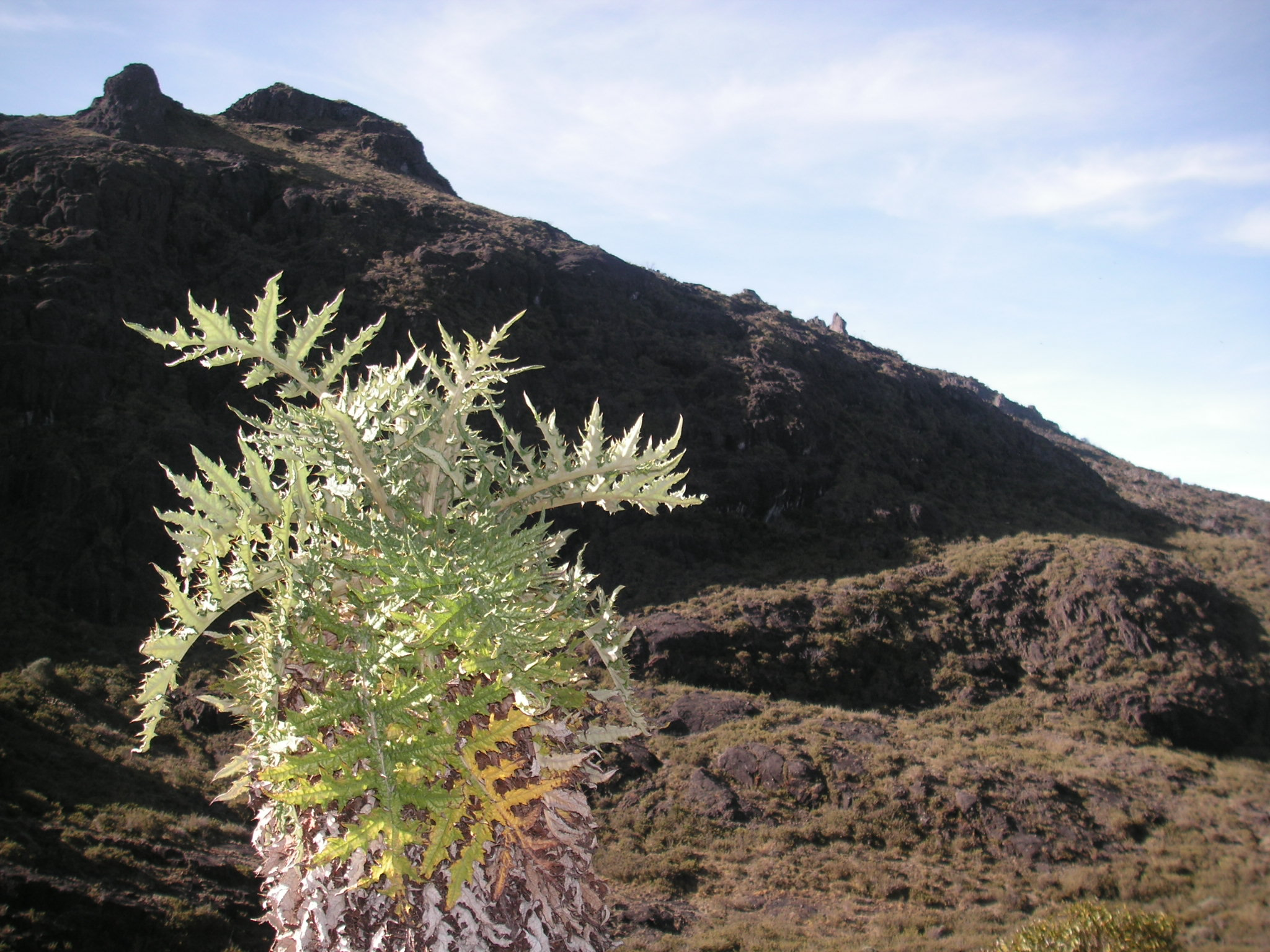 Valle de los Conejos, Chirripo National Park, April 2005